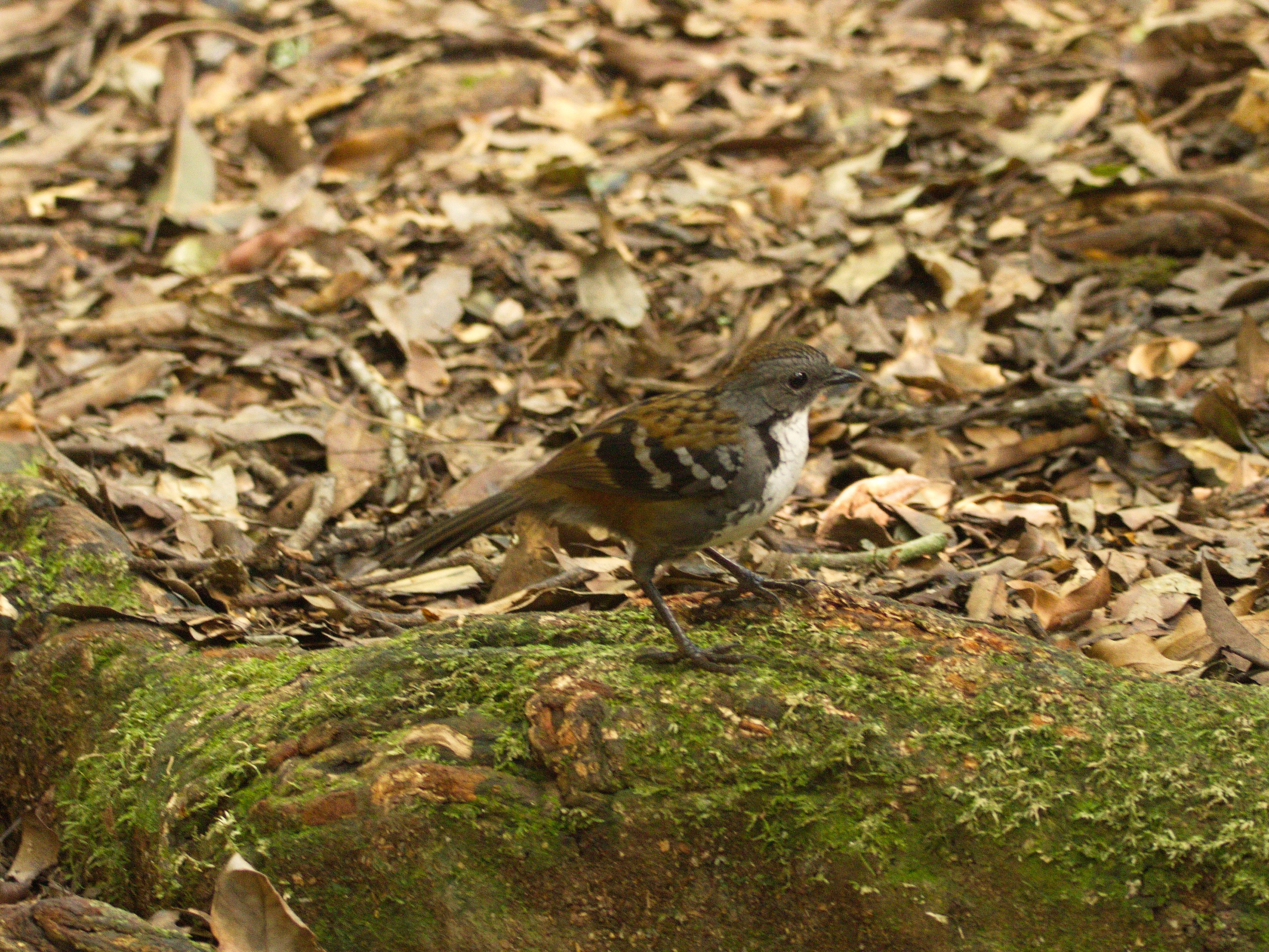 Orthonyx temminckii Ranzani, 1822, Australian Logrunner, male, Lamington National Park, Queensland Australia, 23 May 2017